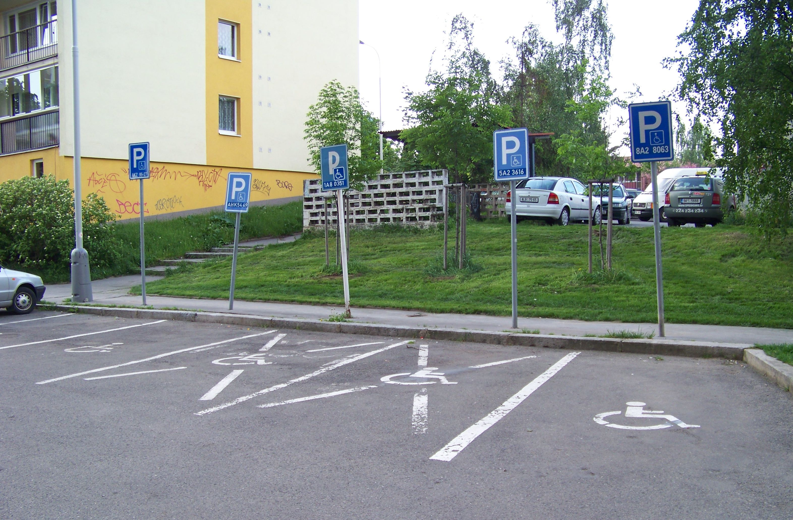 Chodov, Prague, the Czech Republic. V jezírkách street, handicapped parking places.